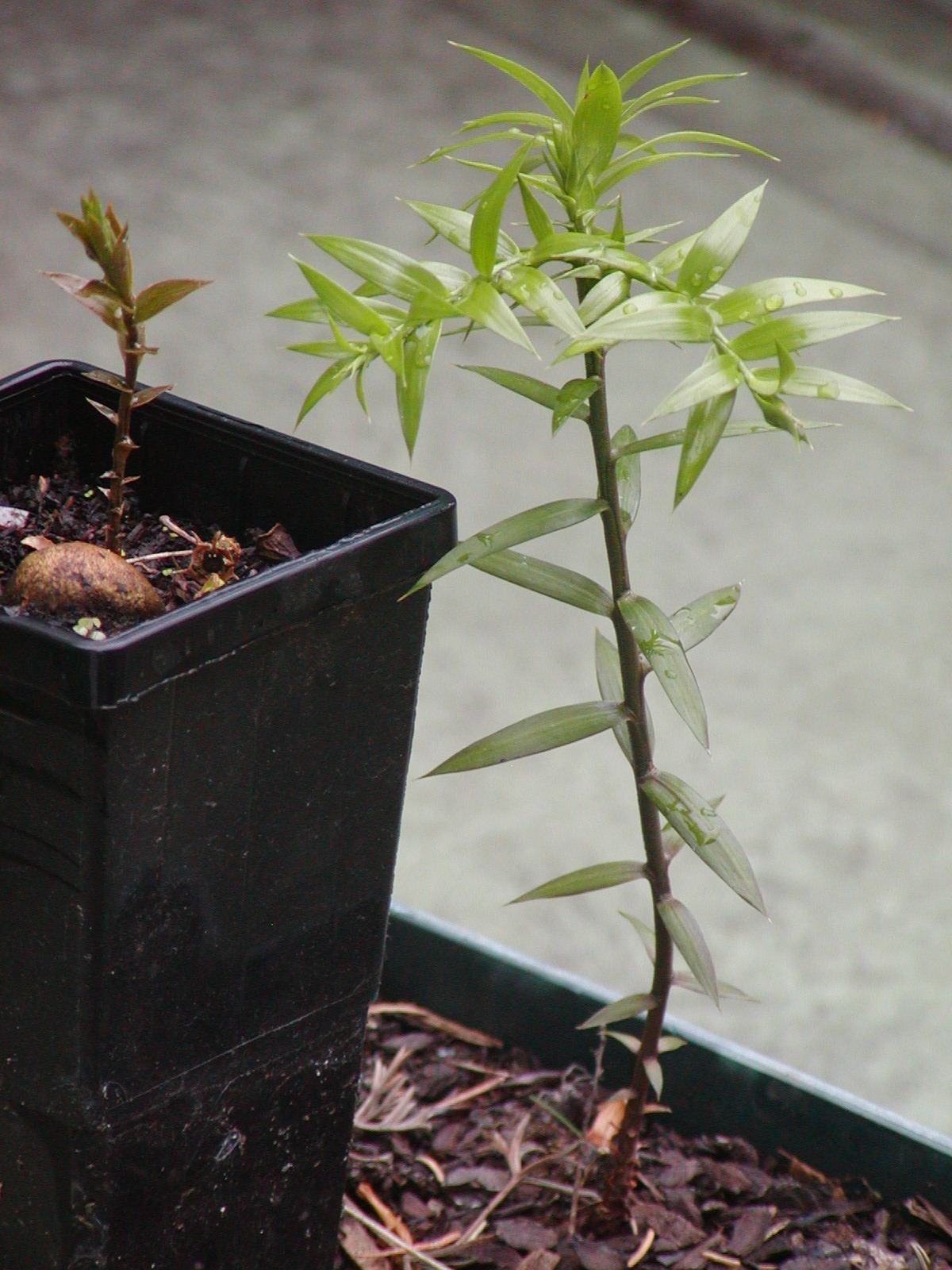 A year old and a 6 month old Bunya-bunya seedling. The change in leaf colour is quite evident.